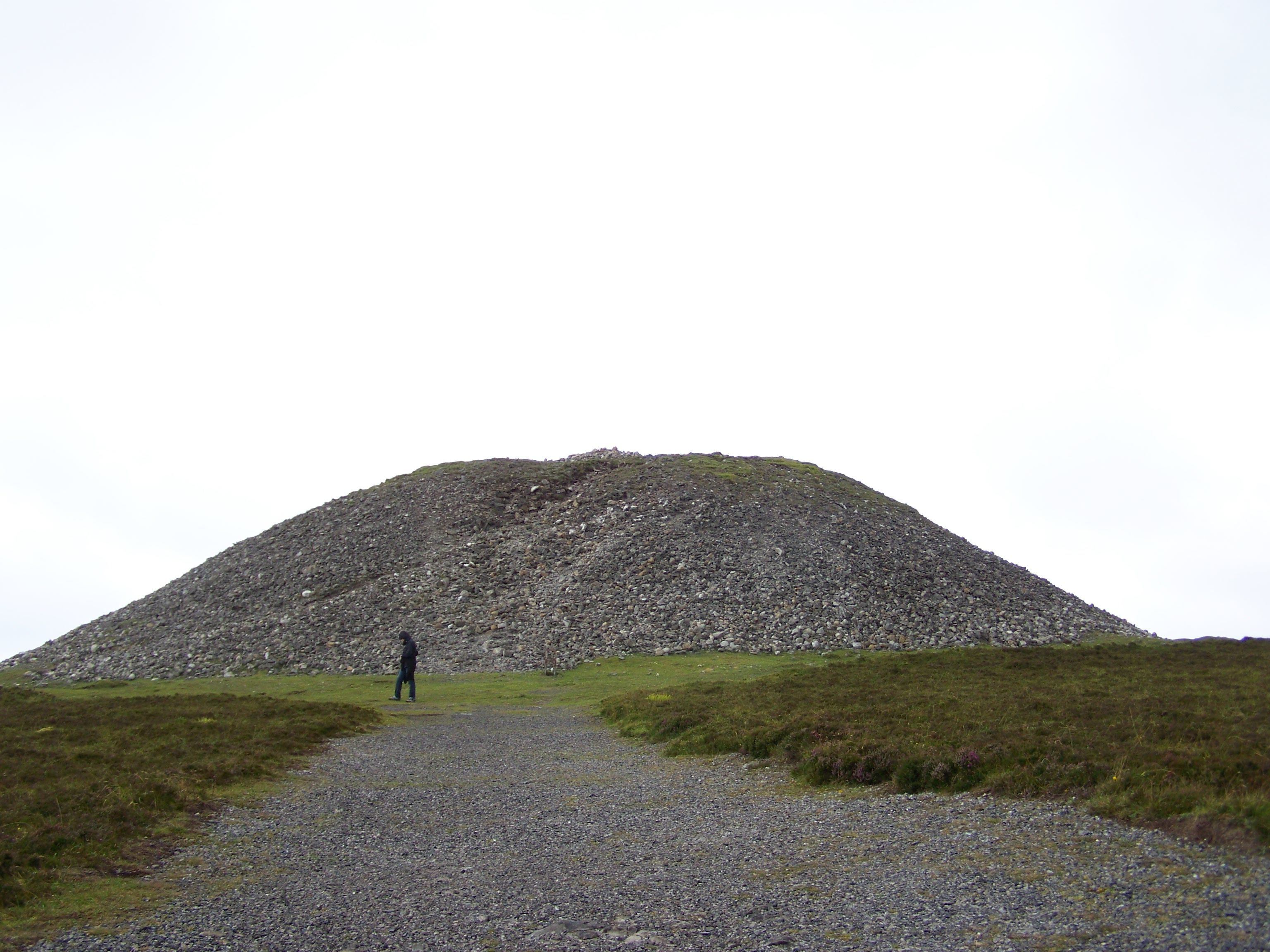 Queen Maeves Tomb Knocknarea